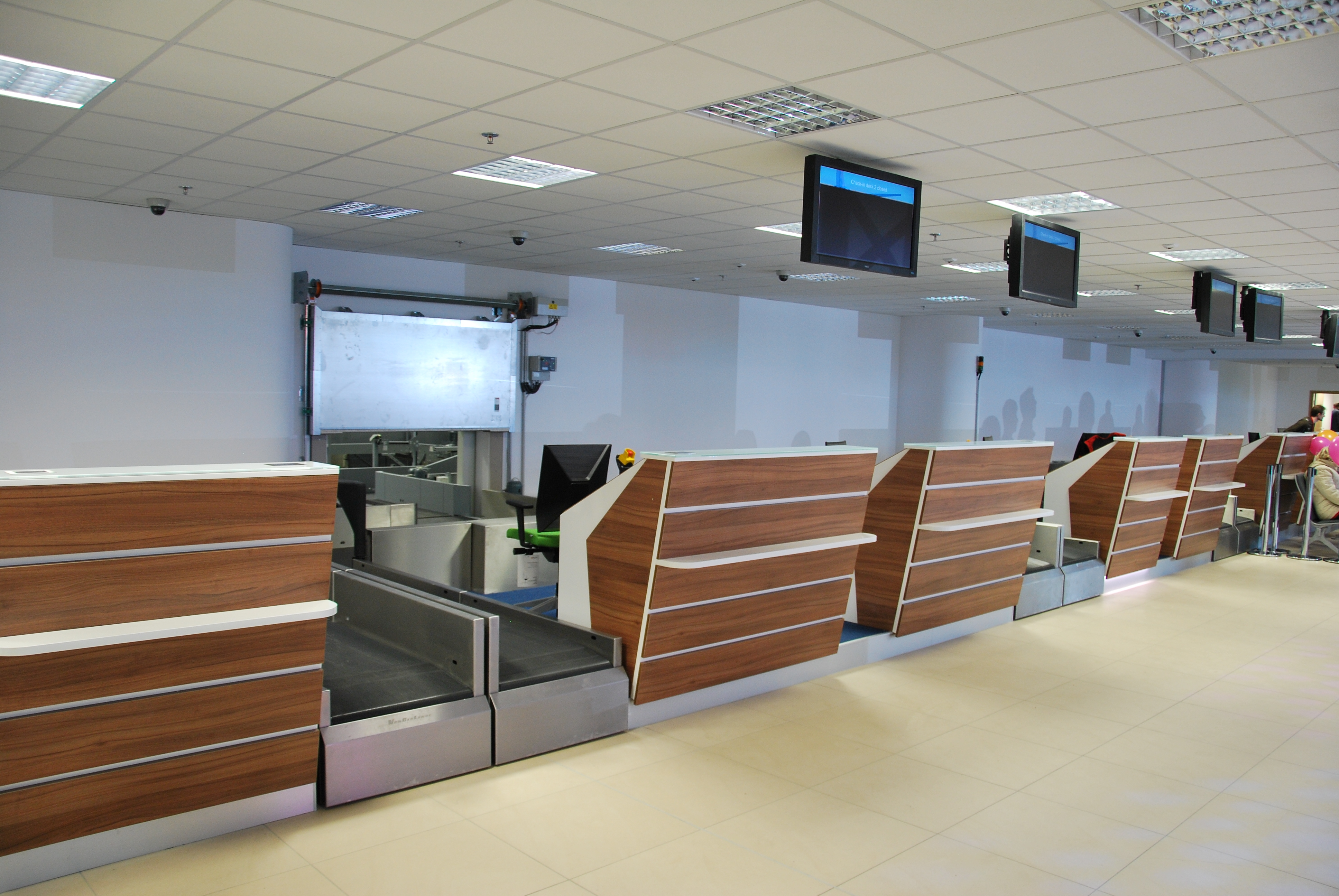 Check-in points, Łódź Airport